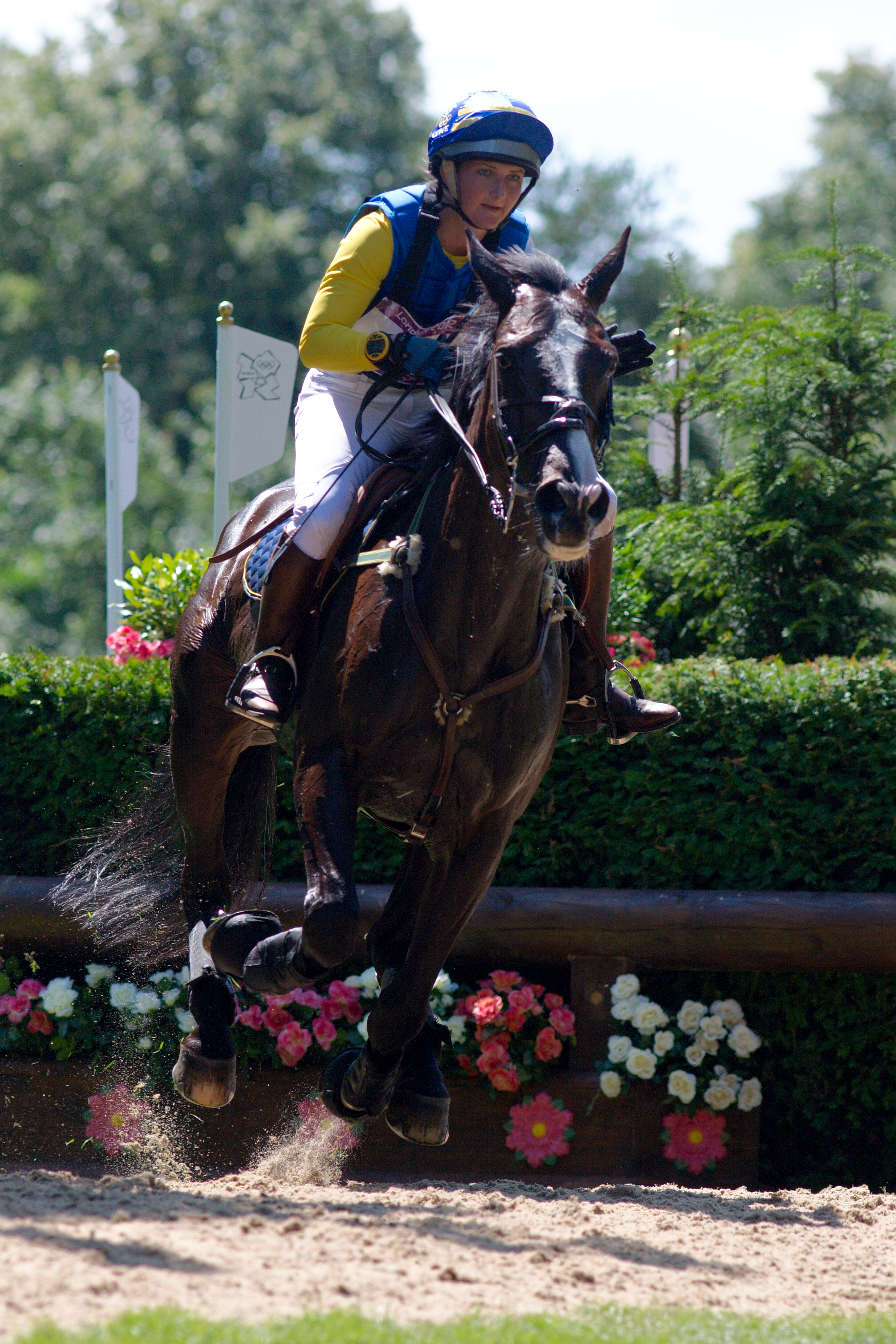 Linda Algotsson and La Fair, competing for SWE, at fence 24, during the cross-country phase of the Eventing during the 2012 Olympic Games in Greenwich Park, London.